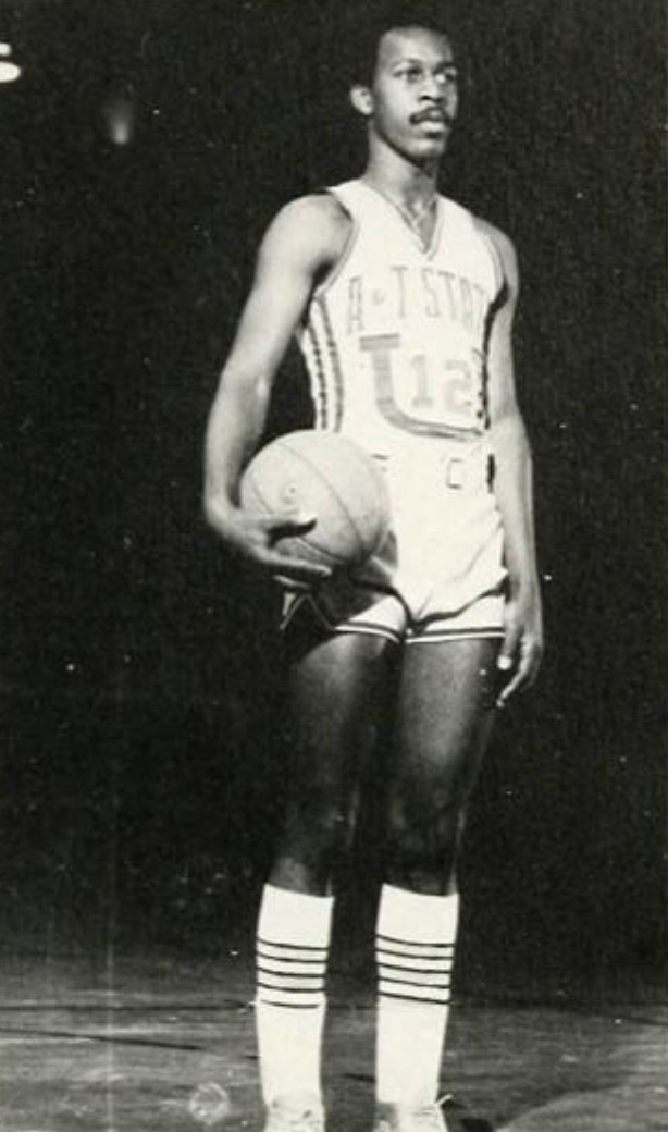 American basketball player Elmer Austin of North Carolina A&T University, from the 1972 Ayantee student yearbook